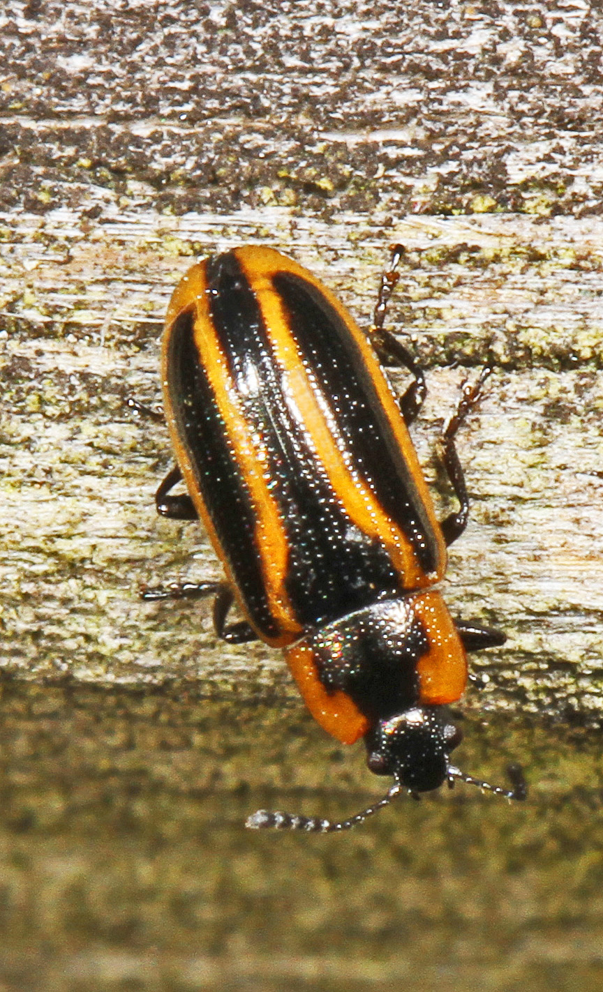 Prasocuris vittata, Leesylvania State Park, Woodbridge, Virginia.